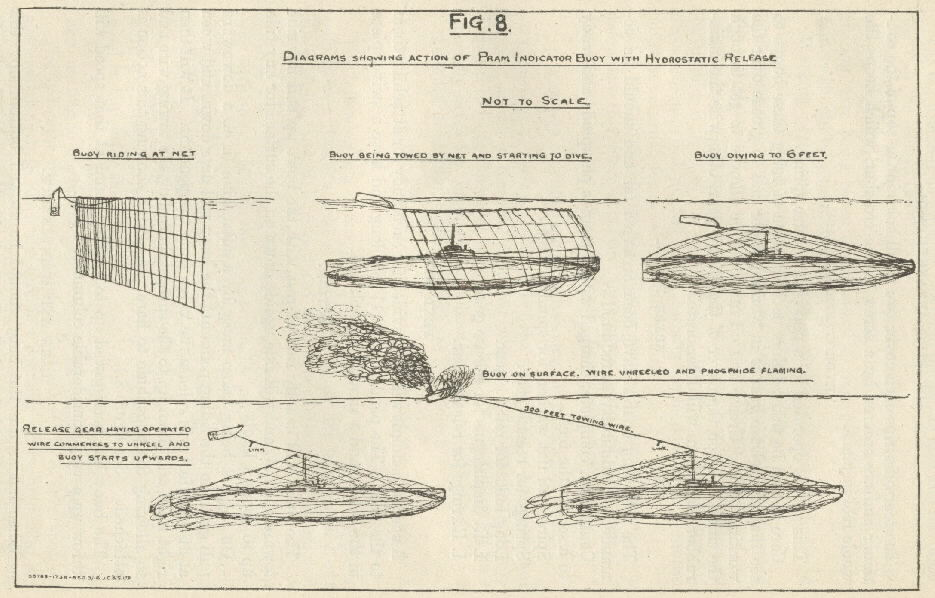 Image of figure 8: Diagrams showing action of pram indicator buoy with hydrostatic release.